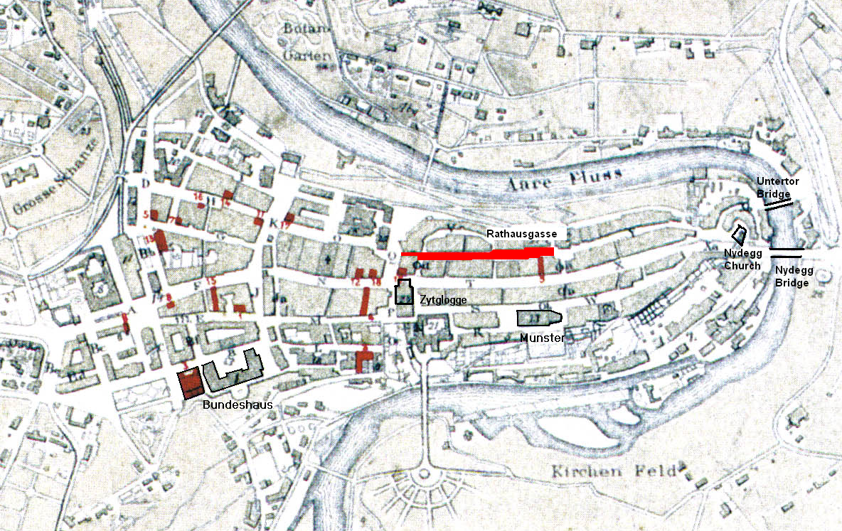 City plan of Bern, 1882. Scanned from BERN: Eine Stadt vor 100 Jahren, Bilder und Berichte; Peter Lauenberger, Emil Erne; München 1997; p. 7. Originally from Bern und seine Umgebungen, C.H. Mann, 1882 in the Alpines Museum of Bern. Due to the age of the image, it must be assumed that the author has been dead for more than 70 years. Copyright protection has therefore lapsed under Swiss copyright law (Art. 29 par. 3 URG).